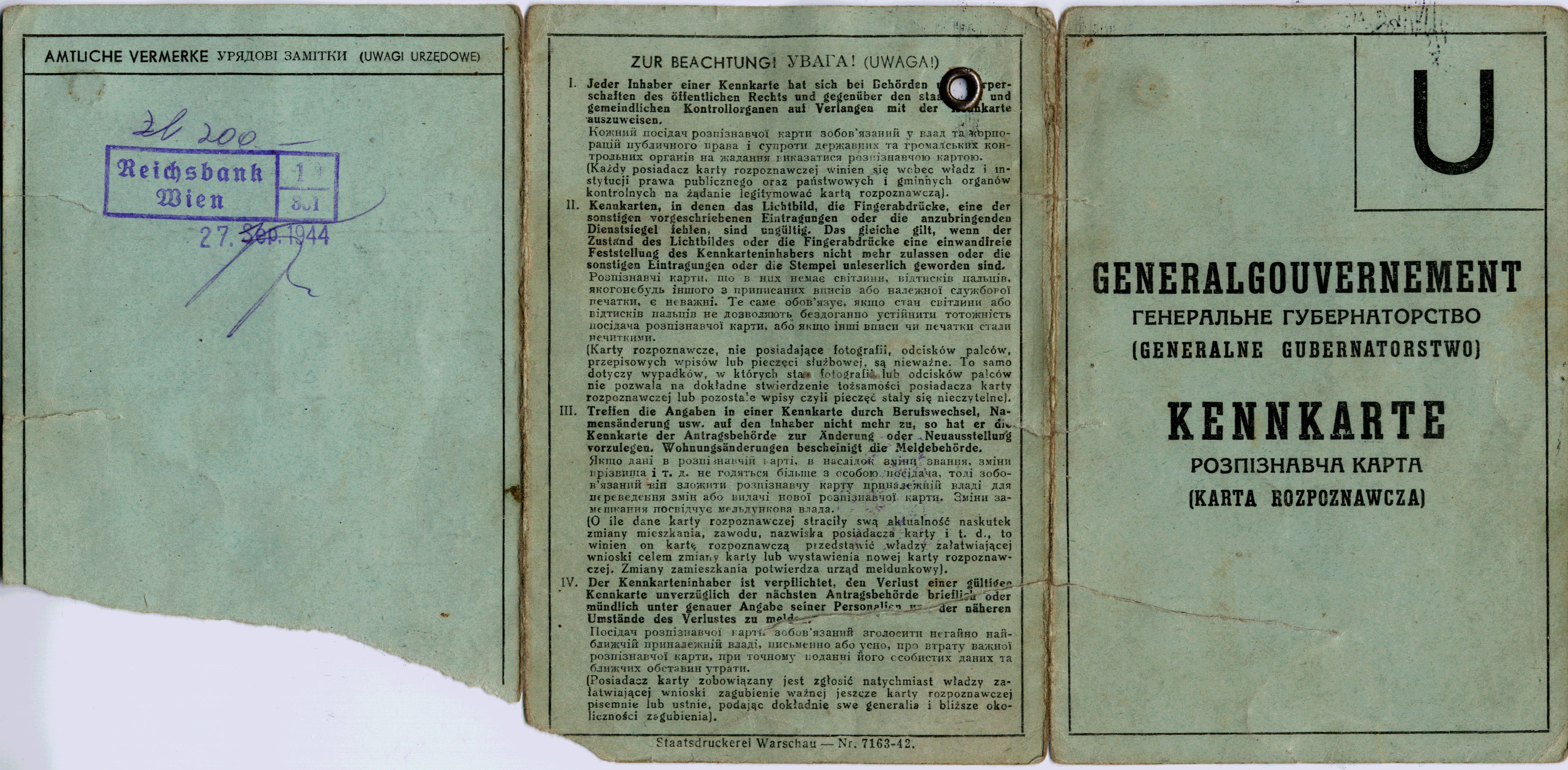 Kennkarte of Alexandra Klaudia Melnyk (Yezerska) from 1944, published in Lemberg (Lviv). Document is using three languages: German, Ukrainian and Polish